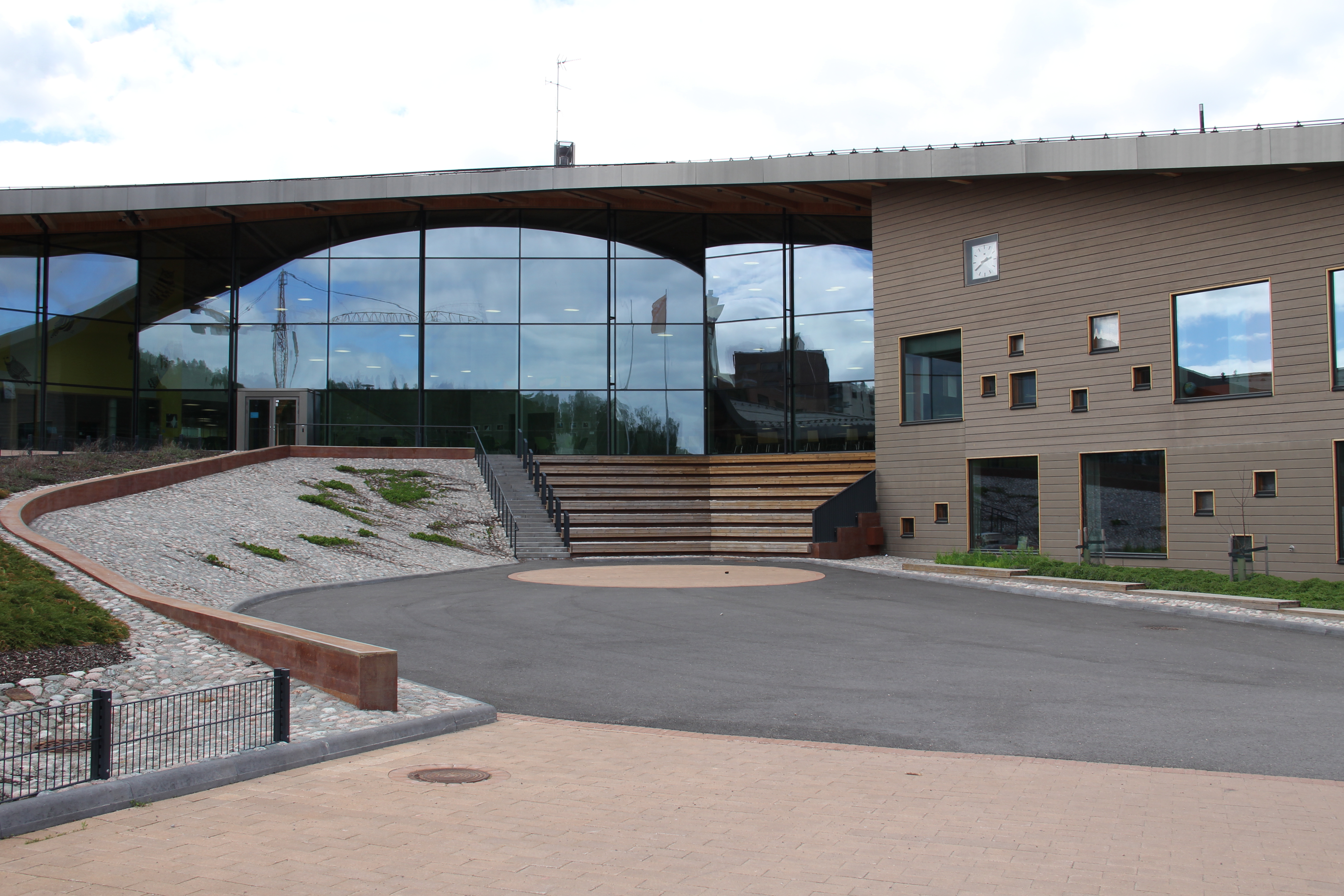 Saunalahti school, Saunalahti district, Espoo, Finland. Completed in 2012. School designed by Verstas Architects Ltd, landscaping designed by LOCI Maisema-Arkkitehdit Oy. Courtyard for older children (12 to 16 years) and outdoor auditorium.